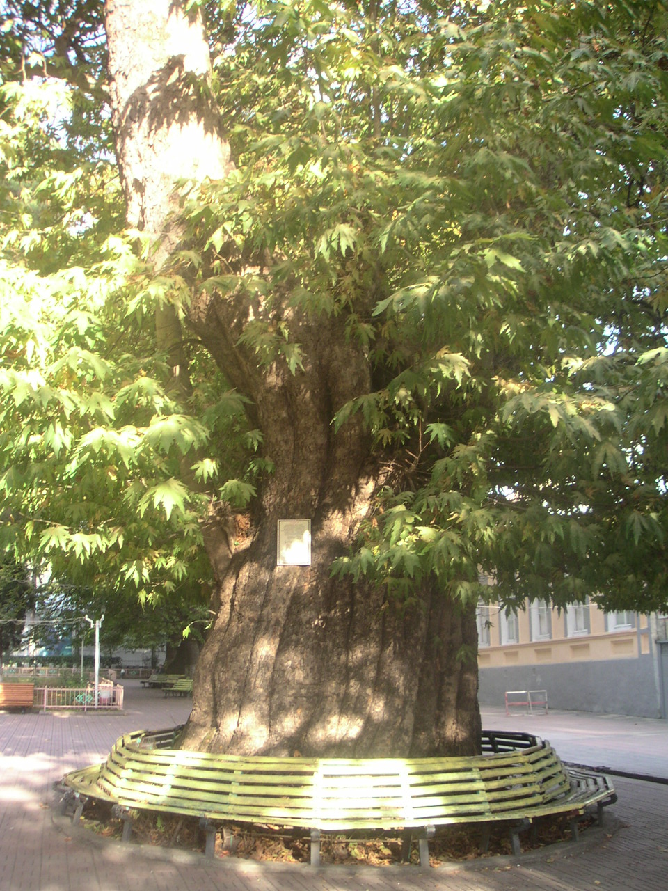 A plane tree in a public park below the ruined fortress in Zaqatala, Azerbaijan.